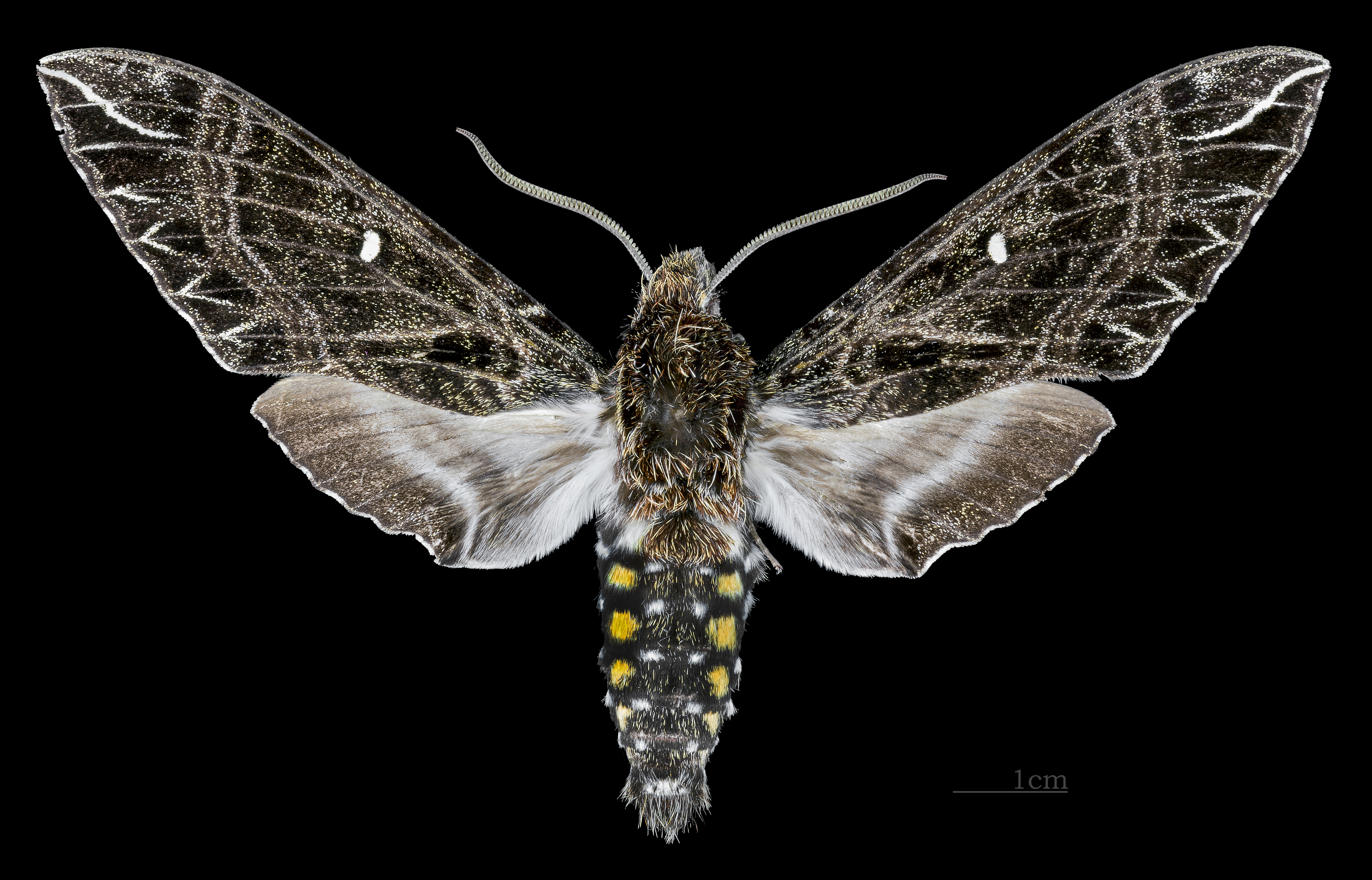 Euryglottis guttiventris - Dorsal side Collection of the Mathematician Laurent Schwartz